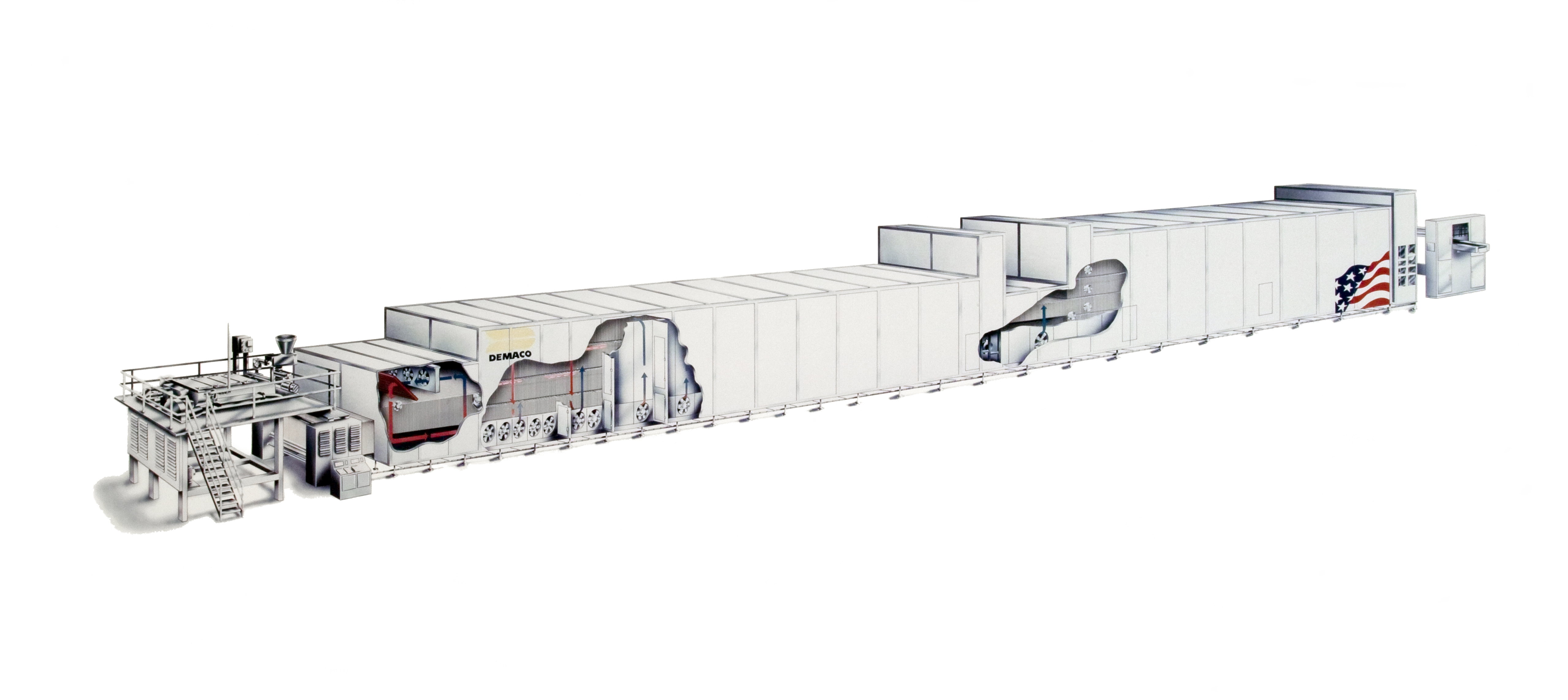 DEMACO Long Goods Dry Pasta Line. This machine makes 1000 kilograms/hour of long goods pasta, such as spaghetti. The line consists of the DEMACO extruder, spreader, dryer and stripper. Product flows from left to right with the DEMACO extruder on the left at the beginning of the line and the dryer on the right. The cutaway shows the inside of dryer with arrows depicting the air flow for drying the pasta.